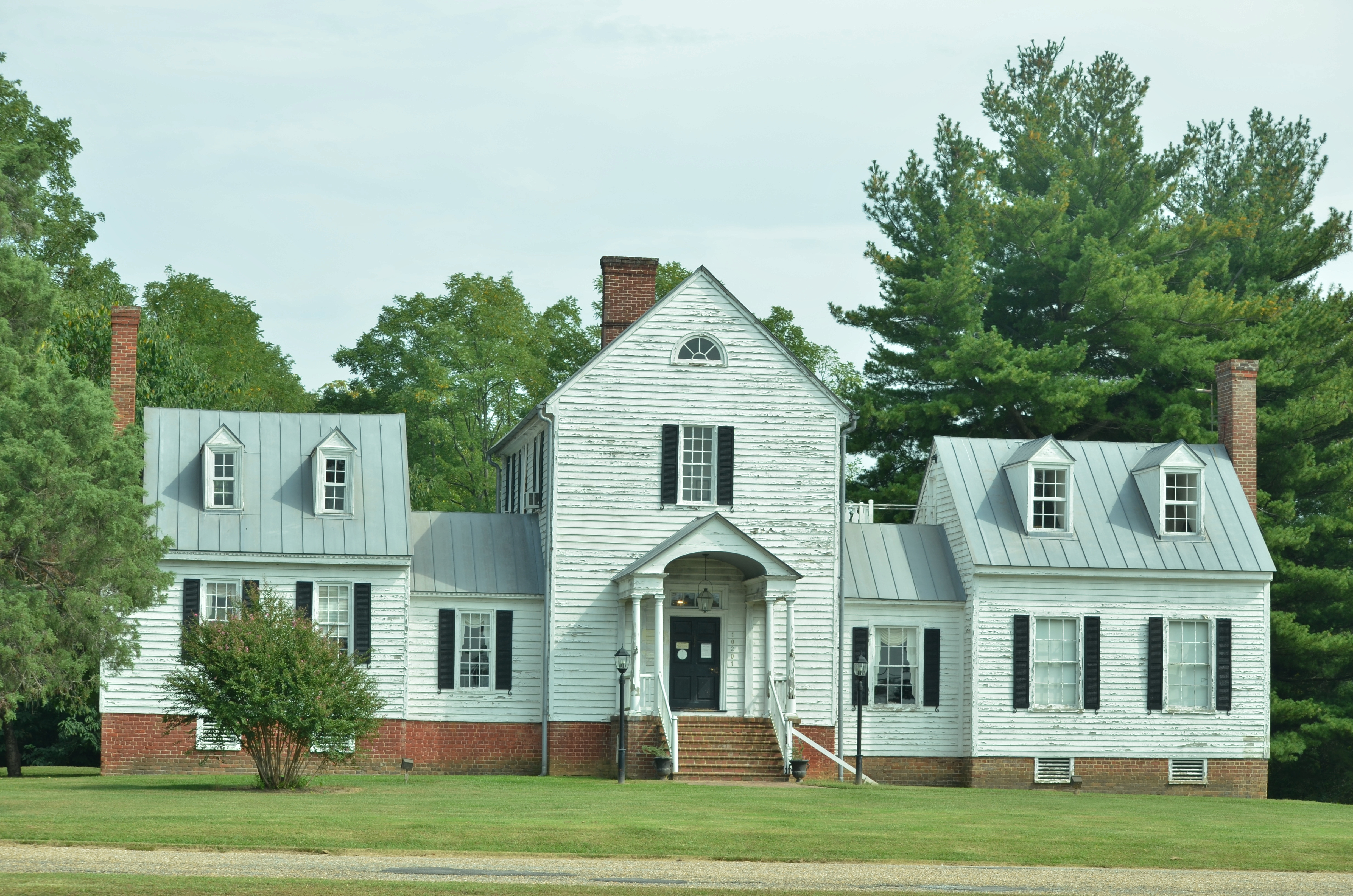 Castlewood